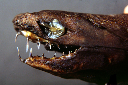 Viper dogfish (Trigonognathus kabeyai) from Hawaii